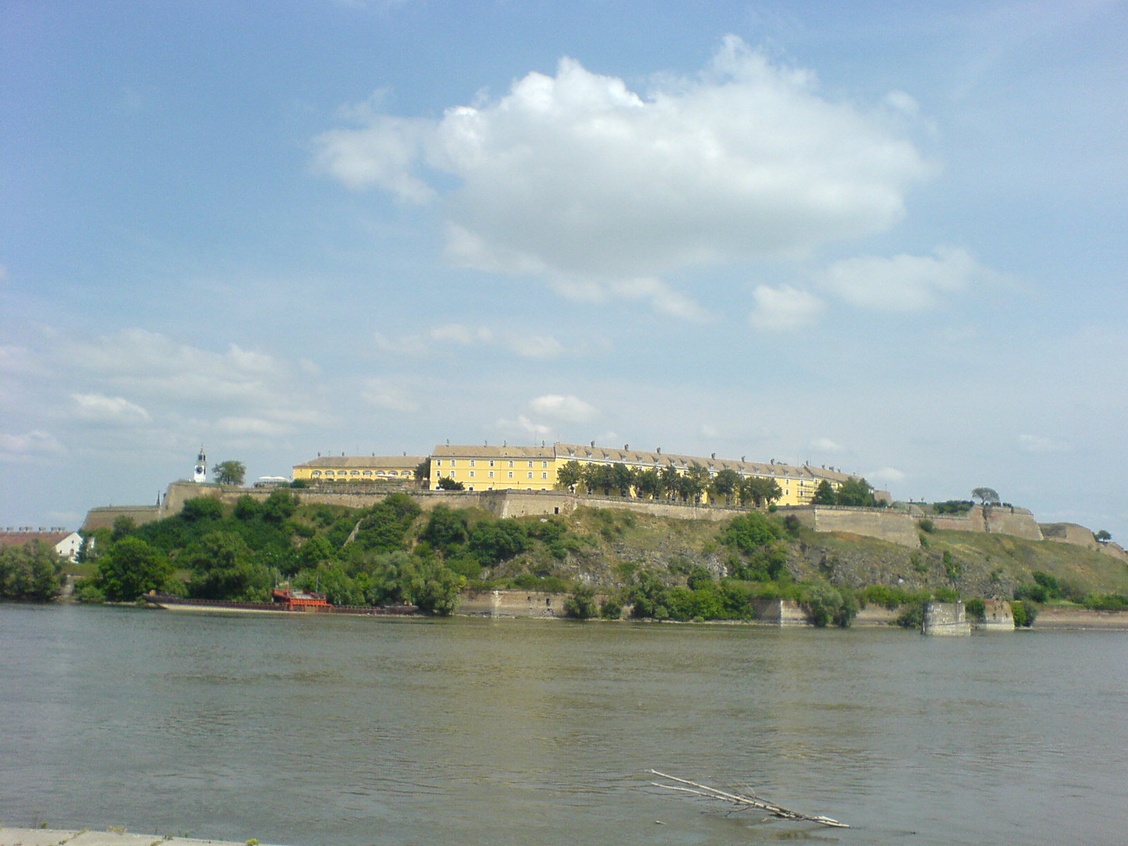 Fortress Petrovaradin in Novi Sad, Serbia